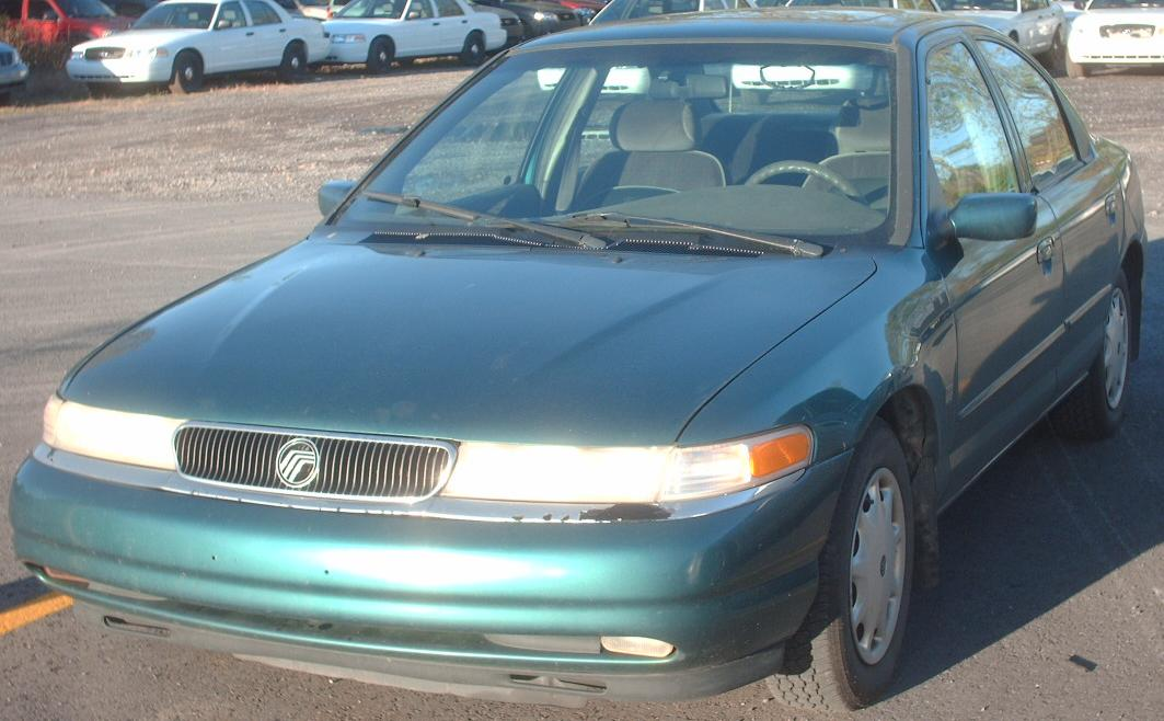 1995-1997 Mercury Mystique photographed in Montreal, Quebec, Canada.